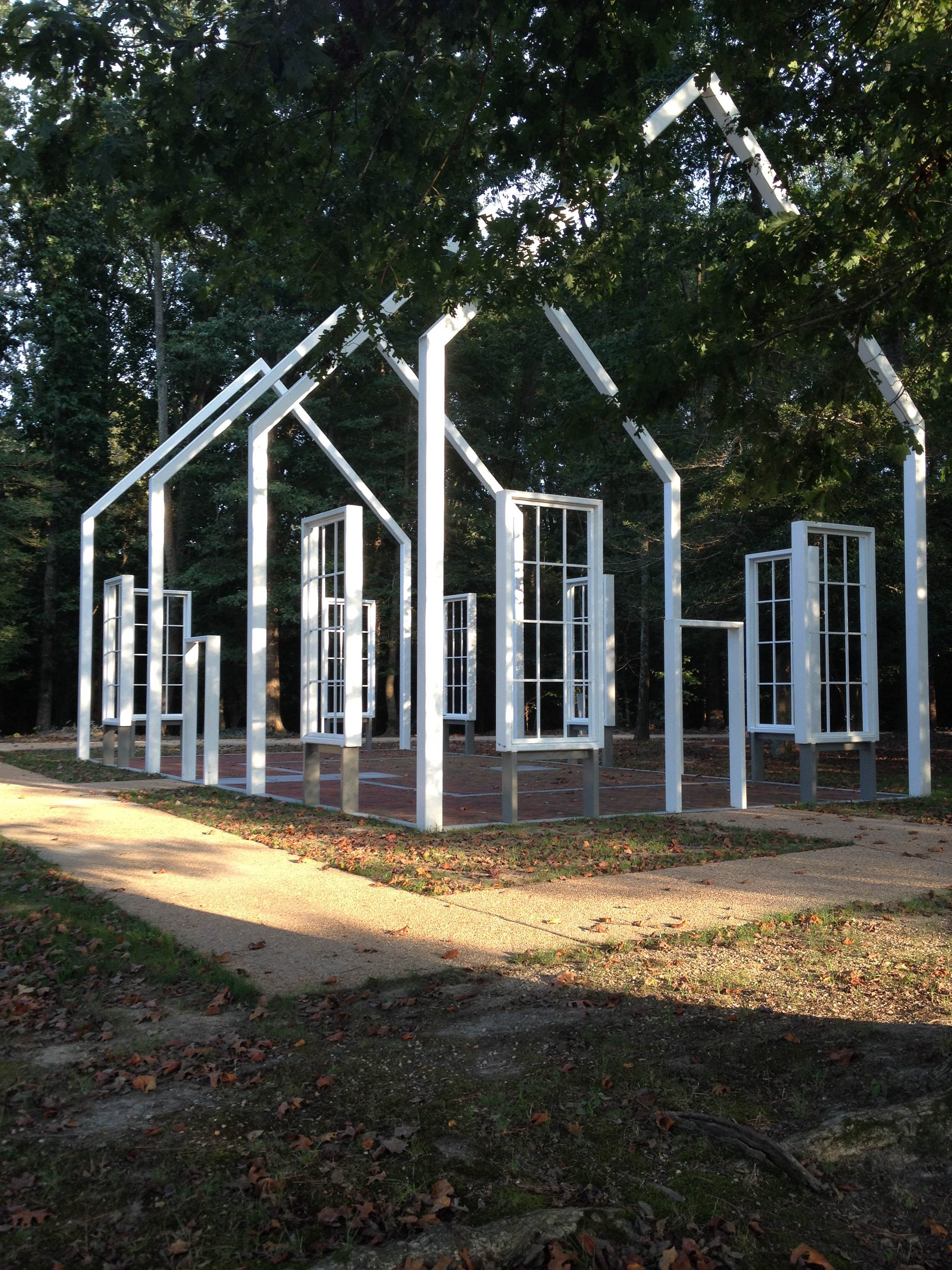 Hanover Meeting House, 6411 Heatherwood Drive Mechanicsville: Monument at church site